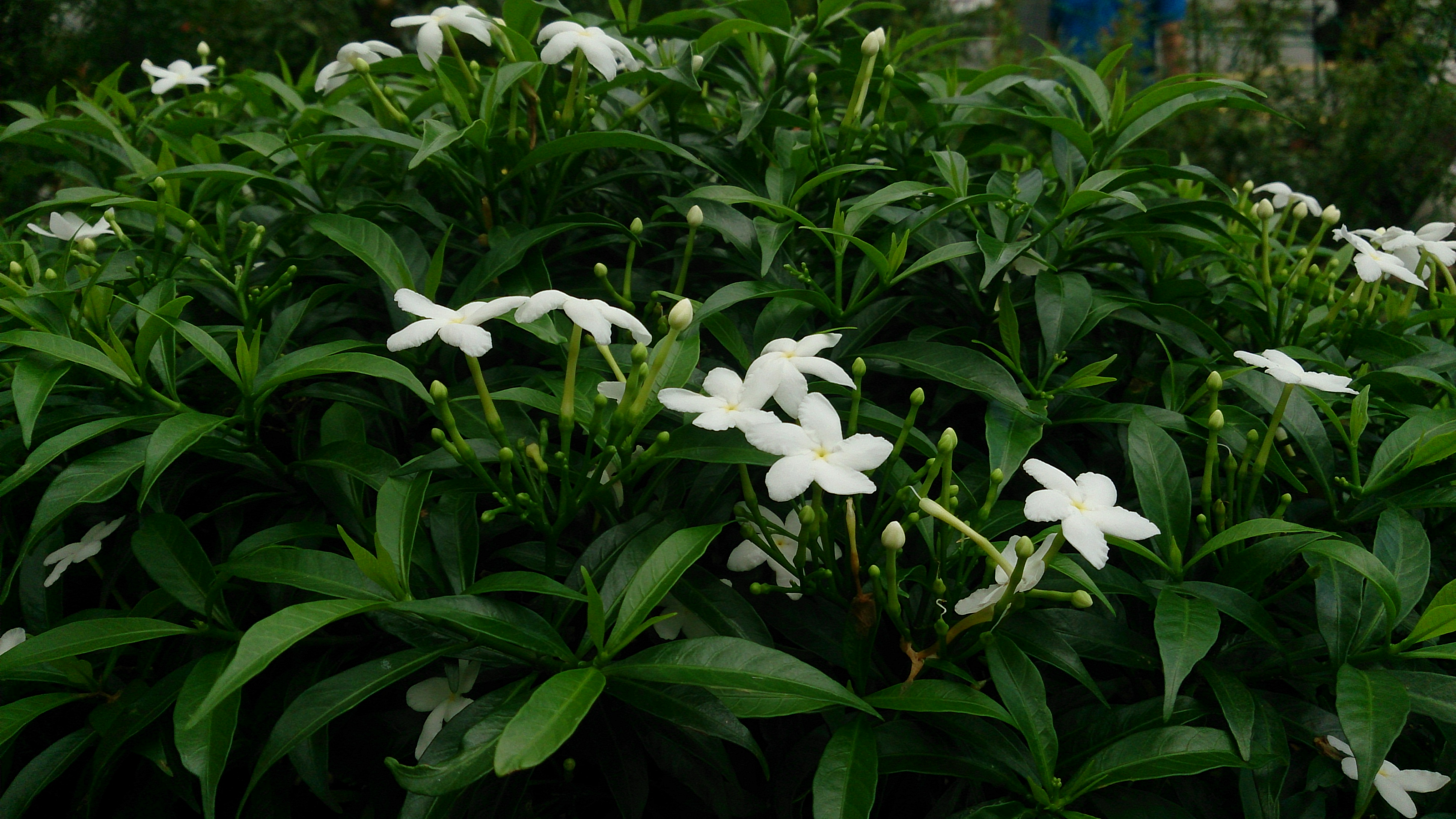 Tabernaemontana divaricate. Synonyms: Ervatamia divaricata, Ervatamia coronaria Common names: Pinwheel Jasmine. Crape Jasmine, Crepe Gardenia